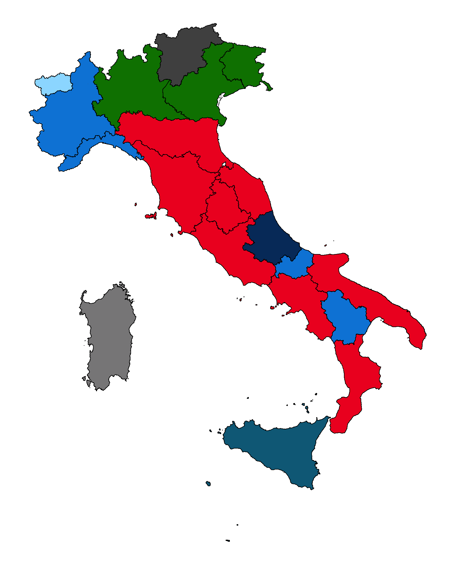 Regions of Italy (Chamber of Deputies) Democratic Party (PD) Forza Italia (FI) League (Lega) Brothers of Italy (FdI) Diventerà Bellissima (DB) South Tyrolean Popular Party (SVP) Sardinian Action Party (PSdAZ) For Our Valley (PNV)